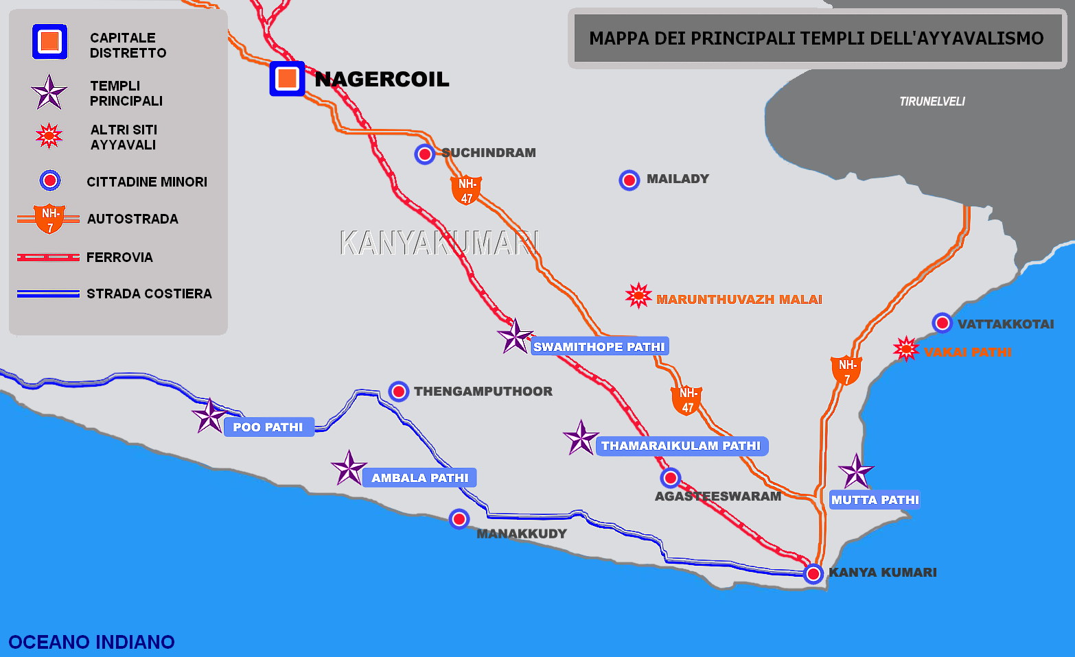 Map showing the location on the main temples of Ayyavalism.